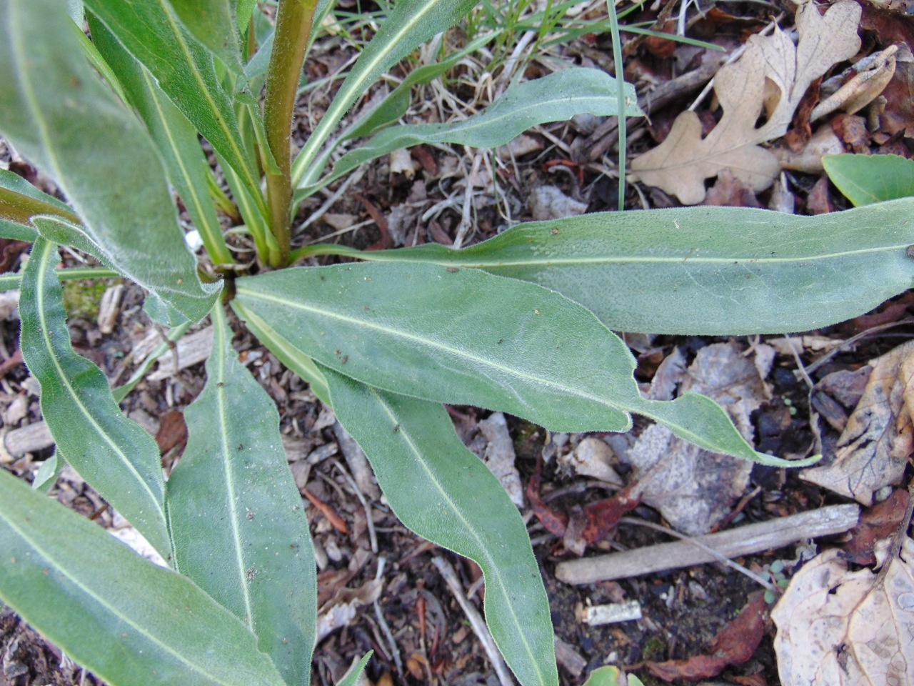 Liatris ligulistylis, Devonian Botanic Garden